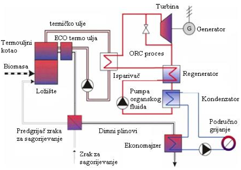 Ilustracija procesa